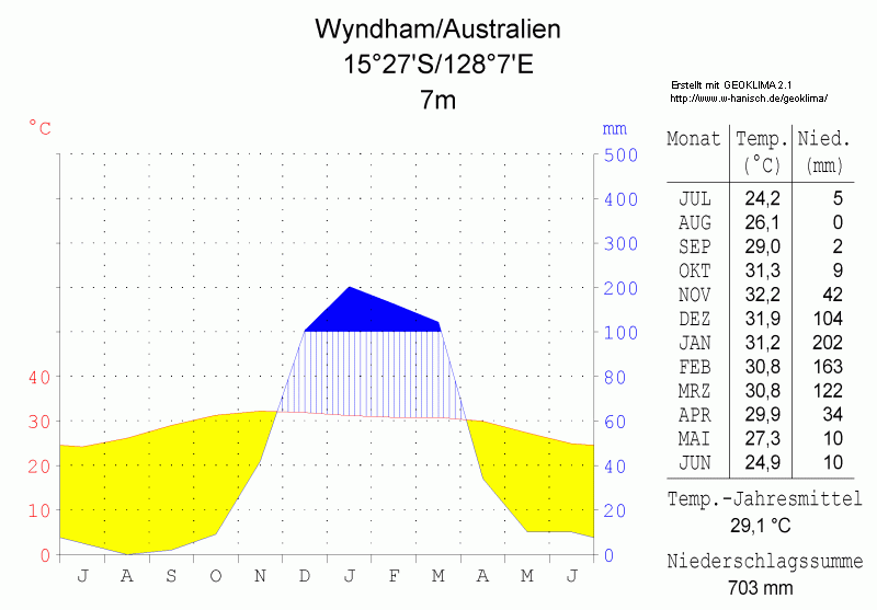 climate chart in the format by Walther and Lieth, metric, °Celsisus and millimeters, made with Geoklima 2.1